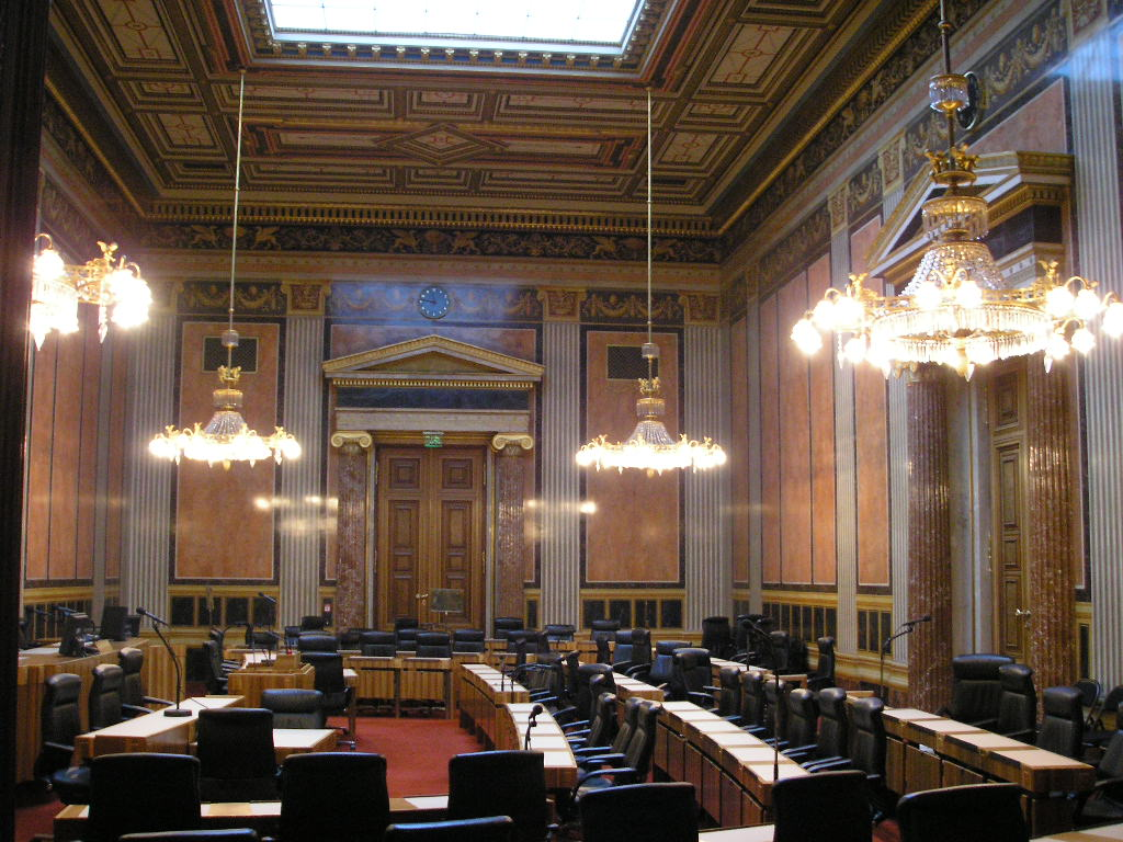 Image of the interior of the parliament building in Vienna. Constructed by Baron Theophil von Hansen.